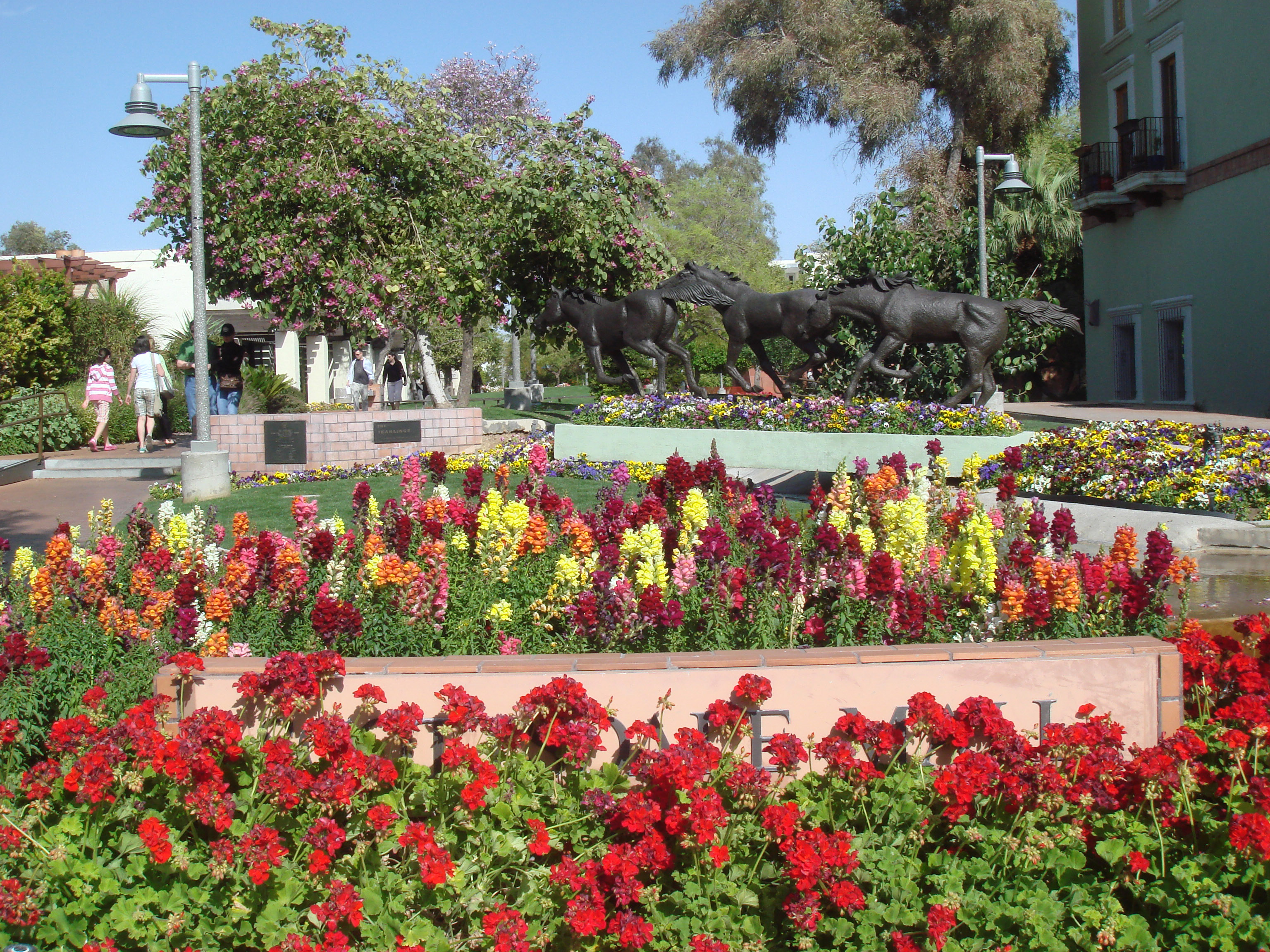 Old Town Scottsdale in Scottsdale, Arizona